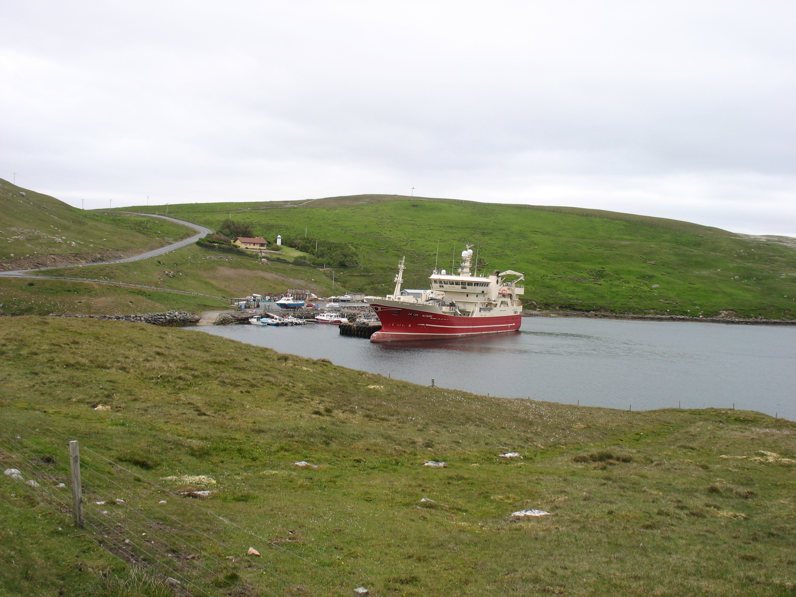 MV Altaire in Voe of the Brig